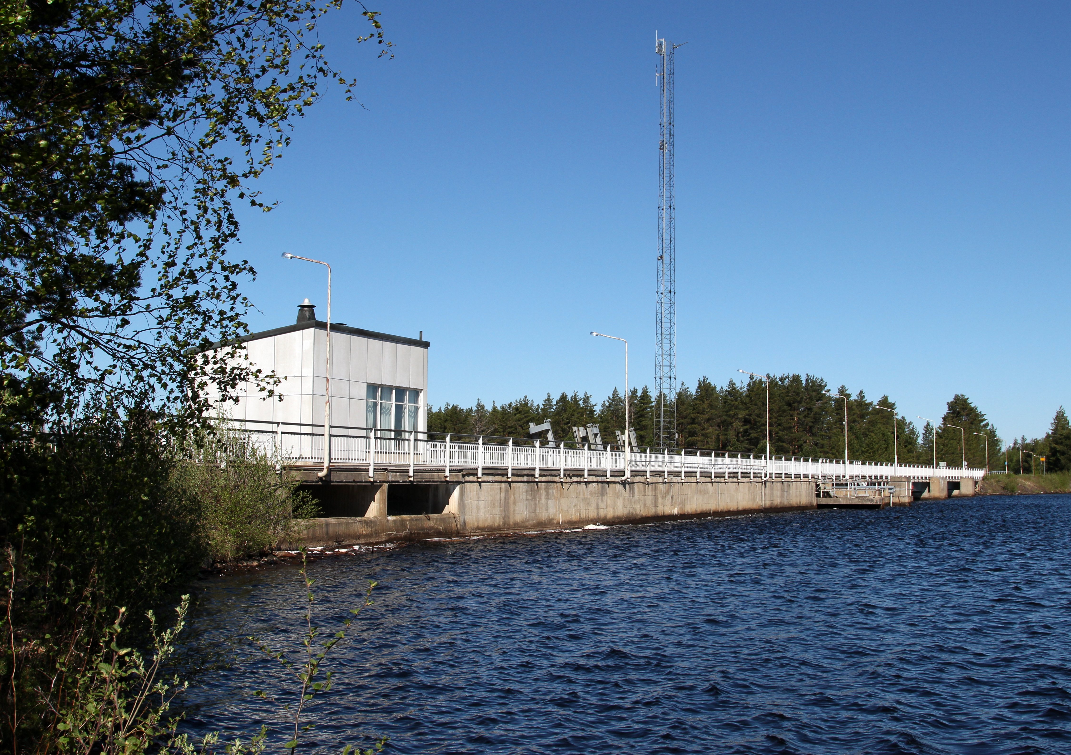 Pahkakoski hydroelectric power plant.